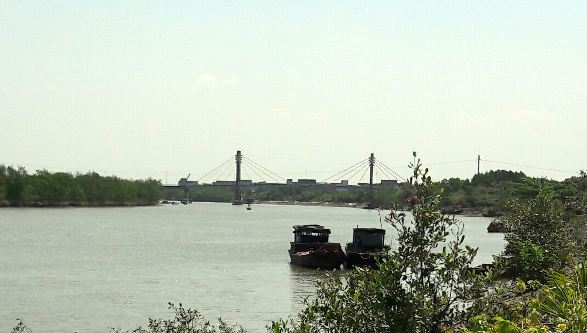 Vam Sat Bridge, Can Gio District, HCMC, Vietnam